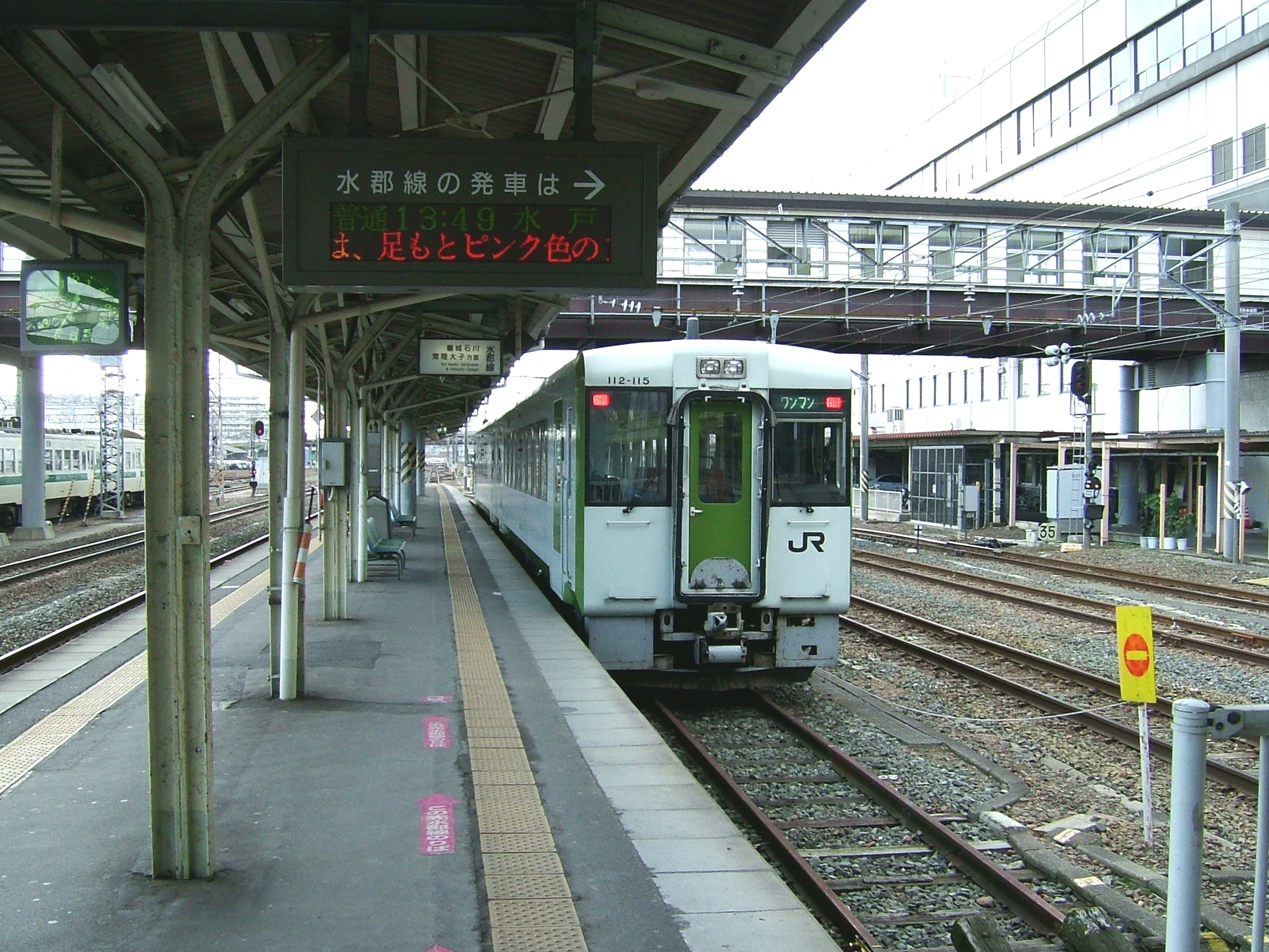 Koriyama Station platform for Suigun Line